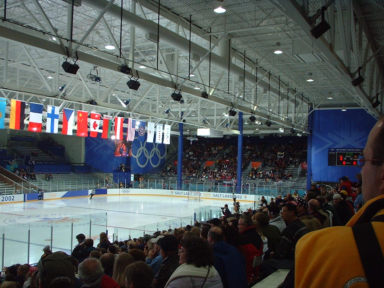 The Peaks Ice Arena in Provo, Utah during the 2002 Olympics